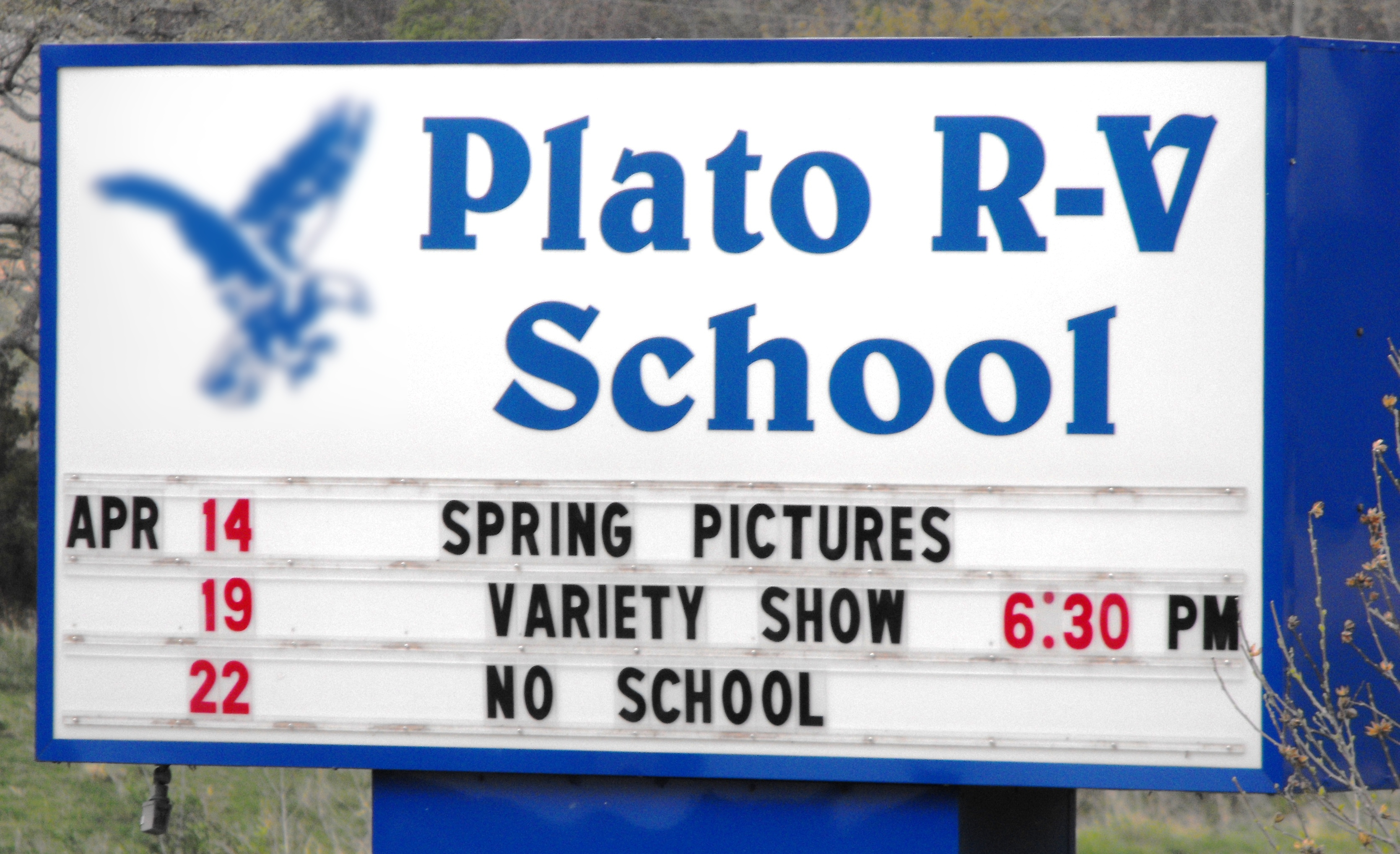 The Plato R-V School District sign